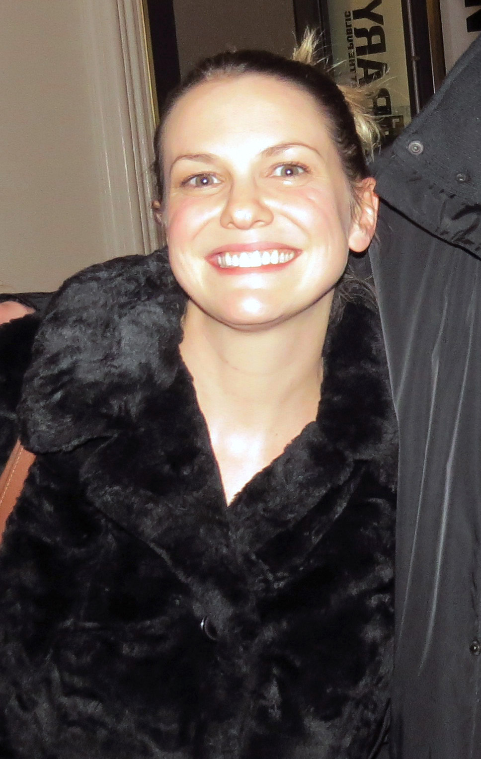 Larisa Oleynik in New York City, 2015